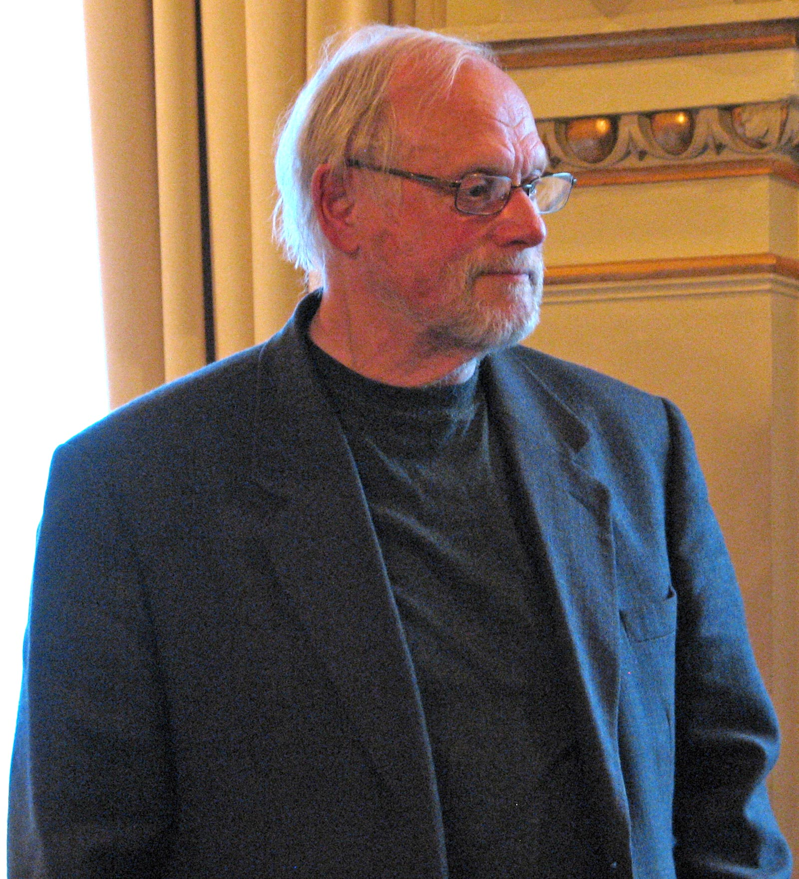 The Swedish film director Jan Troell receiving the Kulturhammaren award at Grand Hotel in Lund, Sweden.